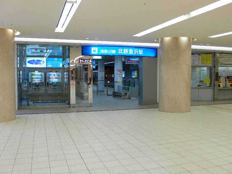 Kanazawa St., Hokuriku Railroad, Ishikawa, Japan.